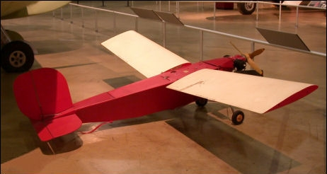 OQ-2A Radioplane, Unmanned Aerial Vehicles